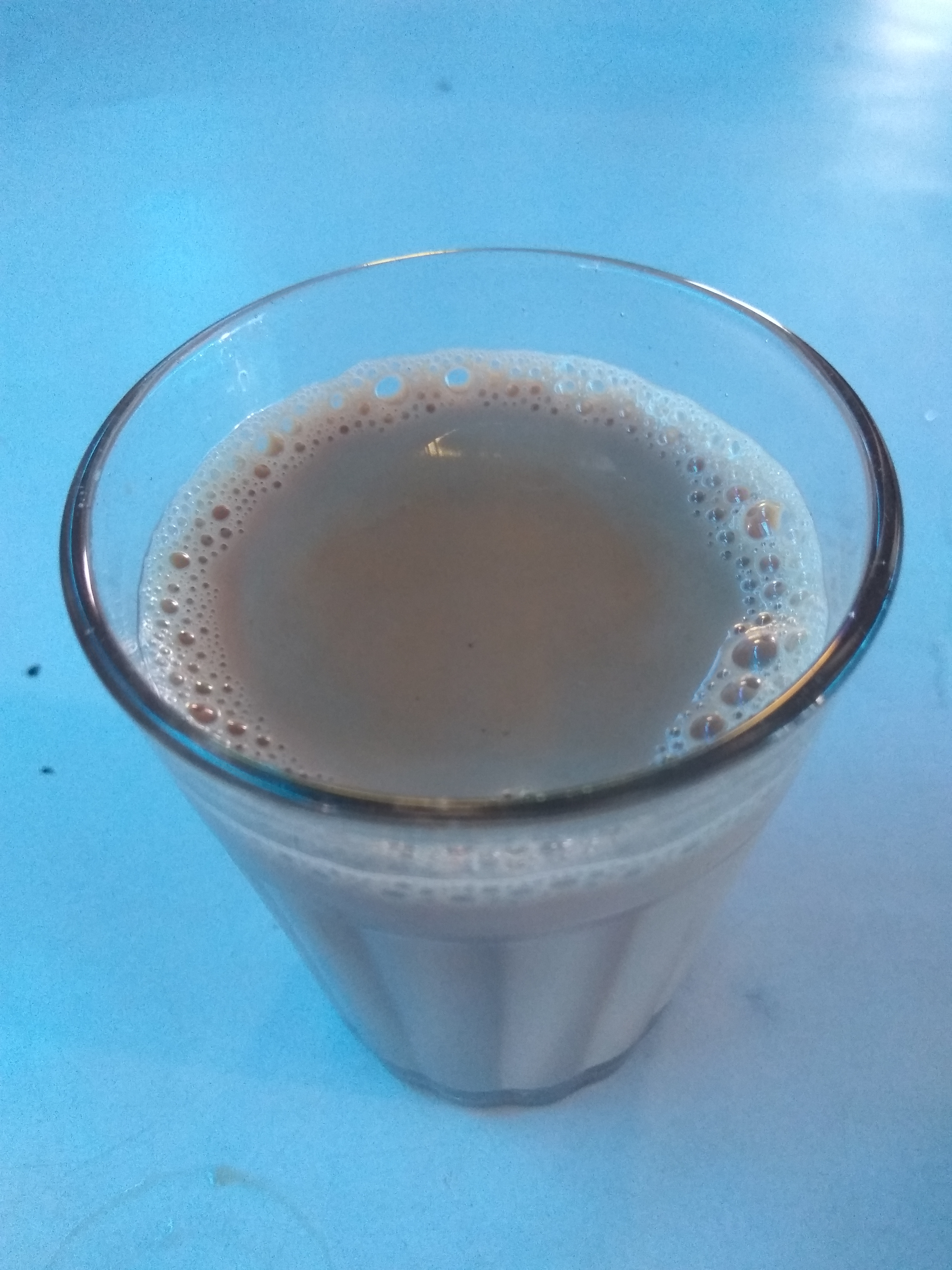 A cup of milk tea.